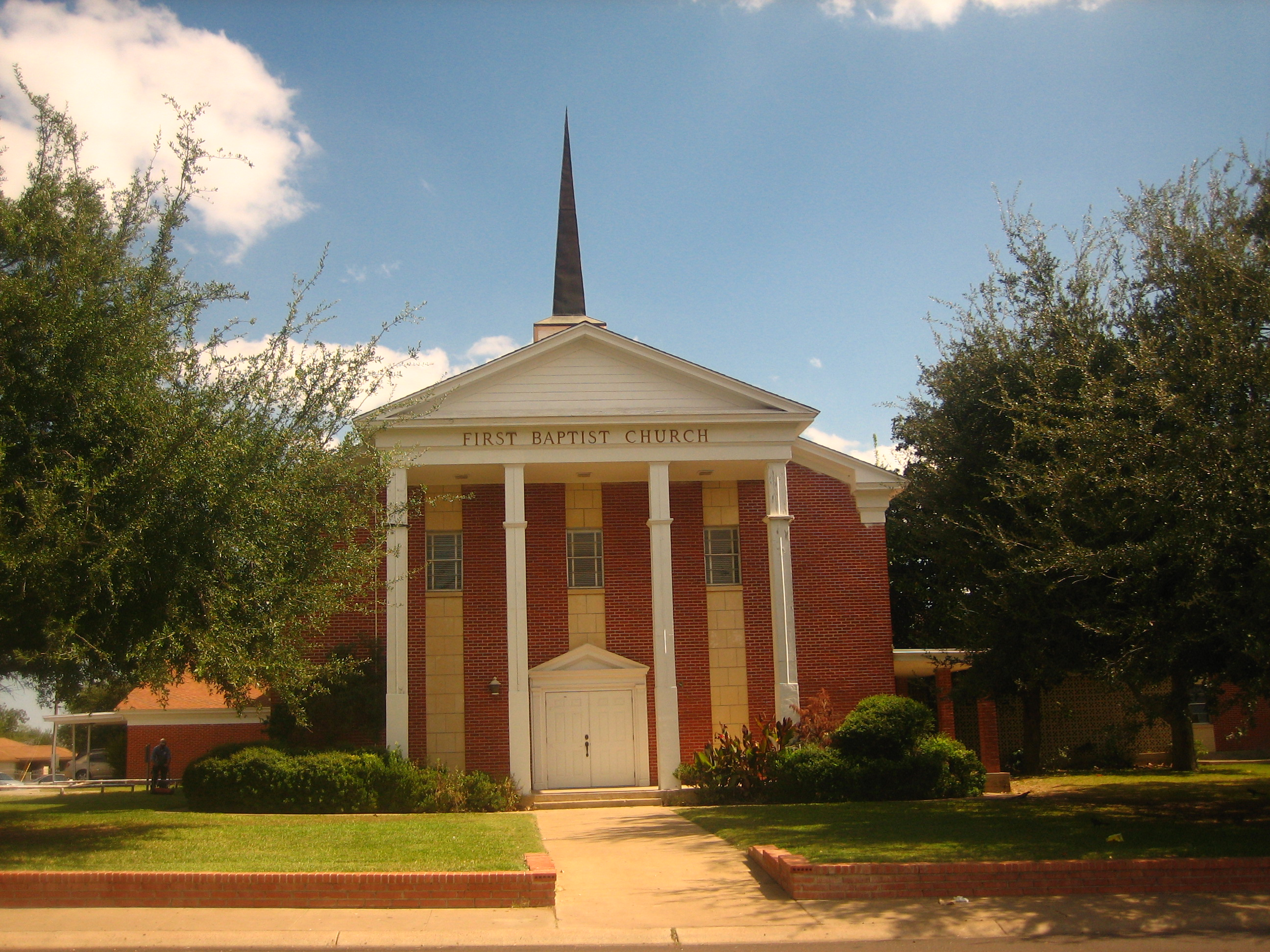 I took photo of former First Baptist Church building in Laredo, TX, now owned by Laredo Independent School District, using Canon camera.